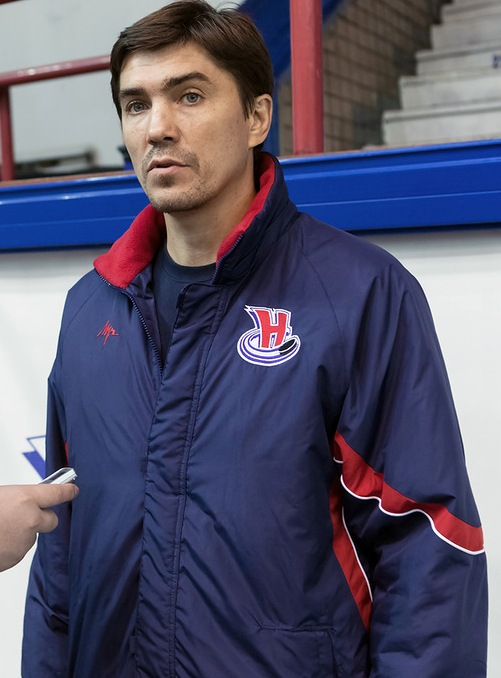 HC Sibir Novosibirsk assistant coach Igor Nikitin after his team ice practice on July 13, 2013